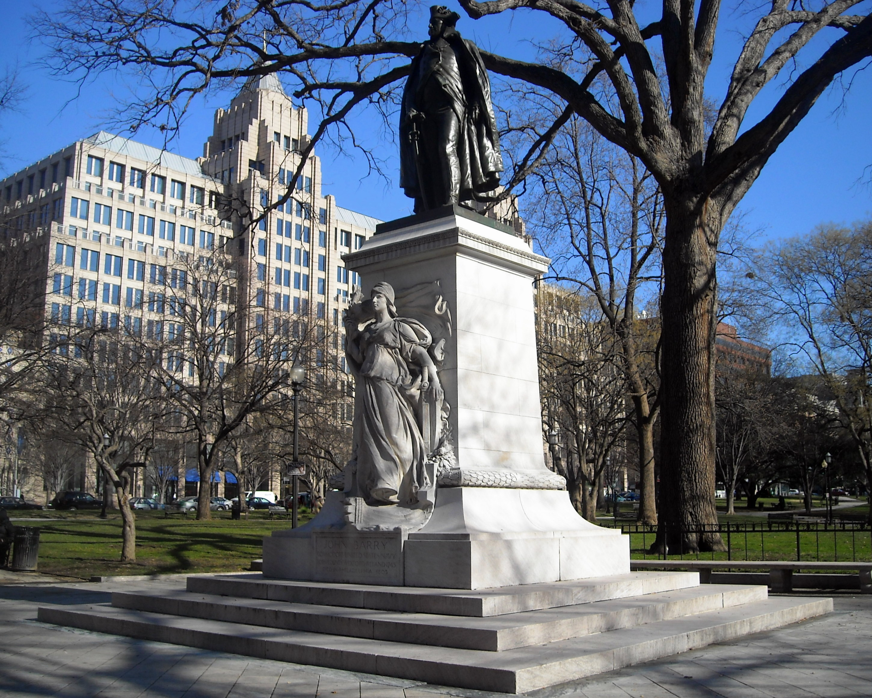 The Commodore John Barry monument at Franklin Square in Washington, D.C. The building is the background is One Franklin Square.